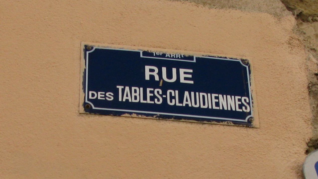 France - Lyon - Street name corresponding to the location where was found roman claudian table (transciption of emperator Claudius speech)